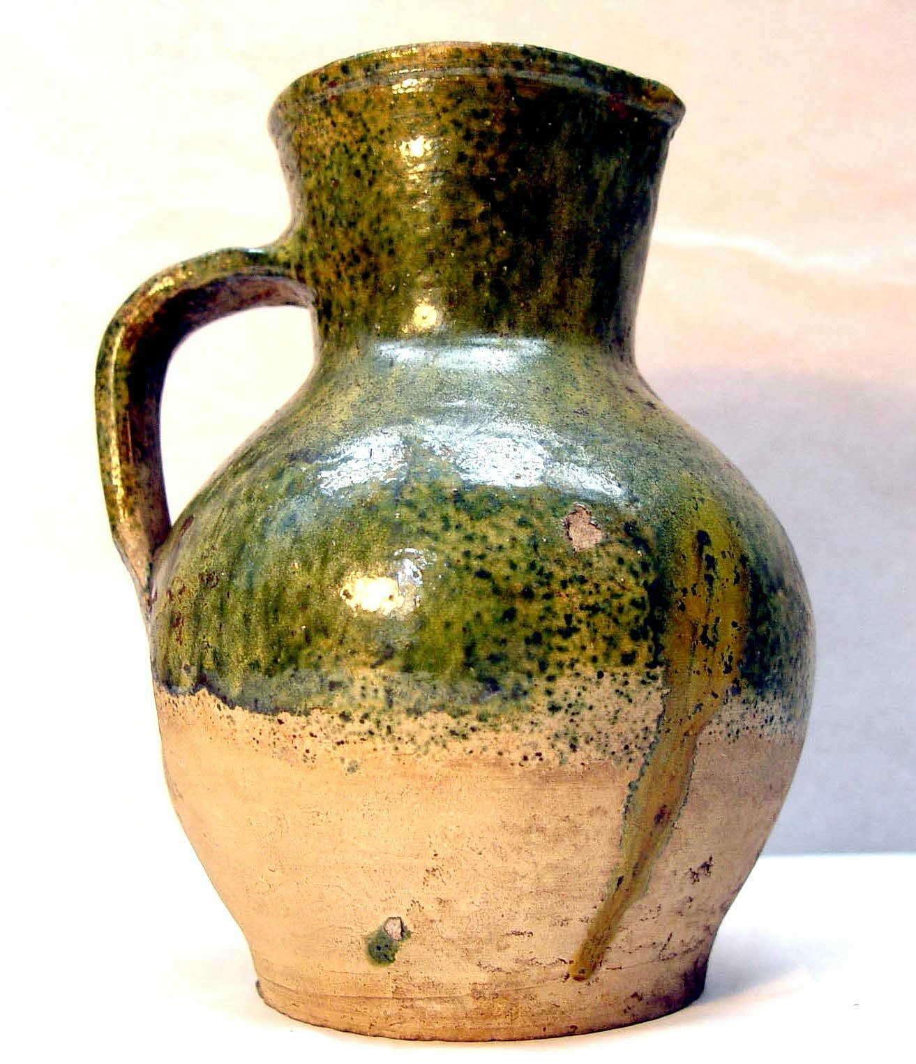 Late medieval Tudor Green ware jug, Buff fabric with yellow-green glaze on upper body; tall neck & rounded body with flat base & strap handle.